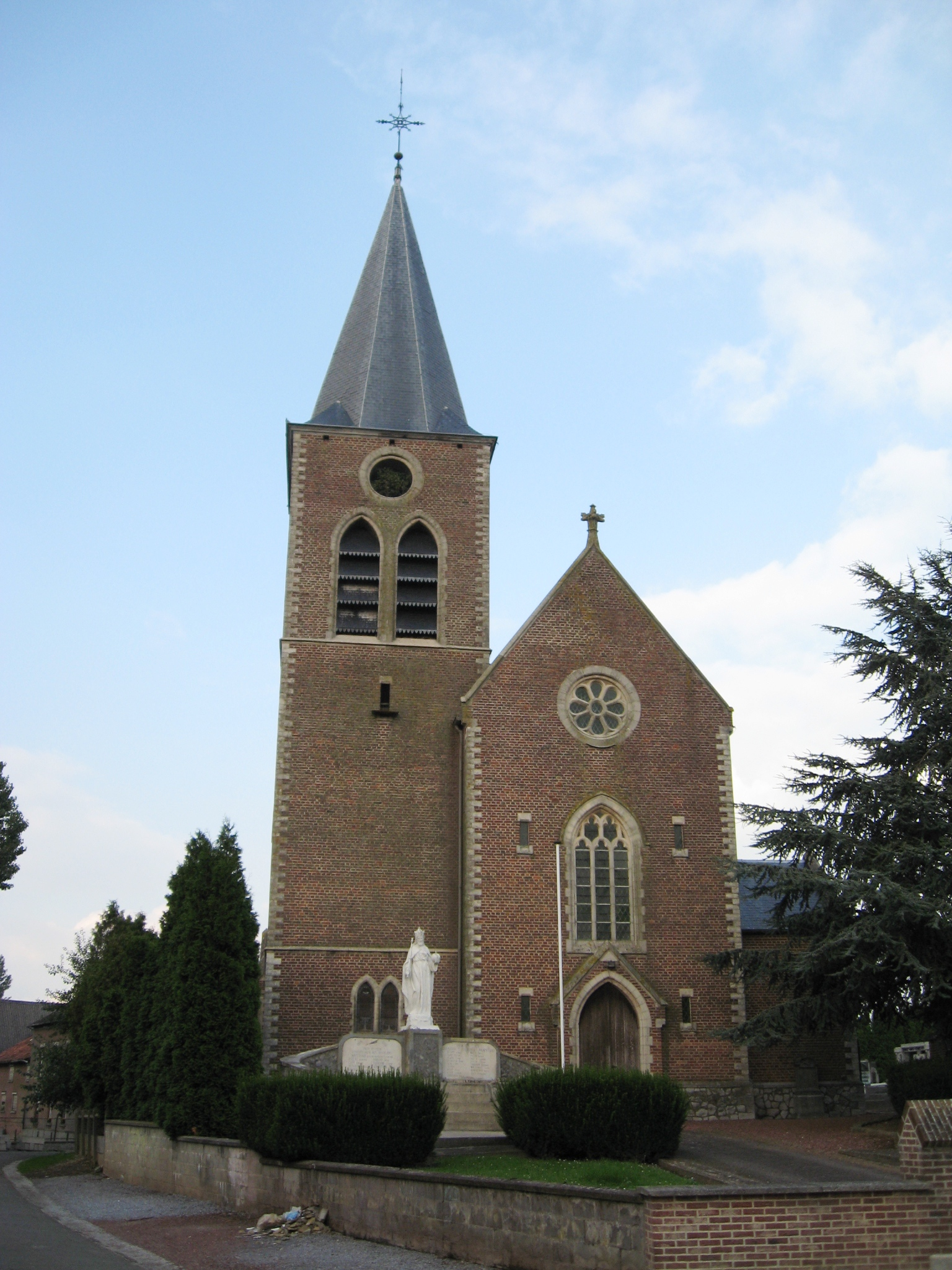 Church of Mary Magdalene in Kortijs, Gingelom, Limburg, Belgium